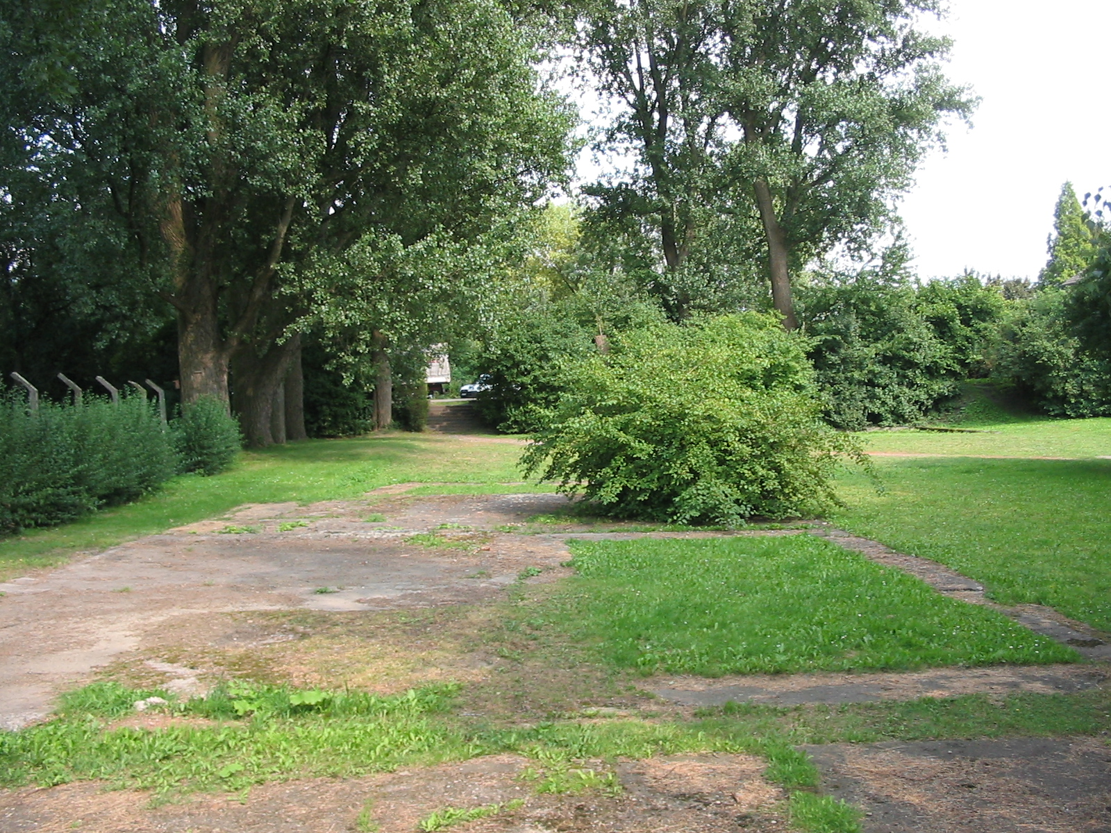 Außenlager Annener Gußstahlwerk des KZ Buchenwald (Subcamp Annen Steelworks of concentration camp Buchenwald) in Witten: foundations of barracks